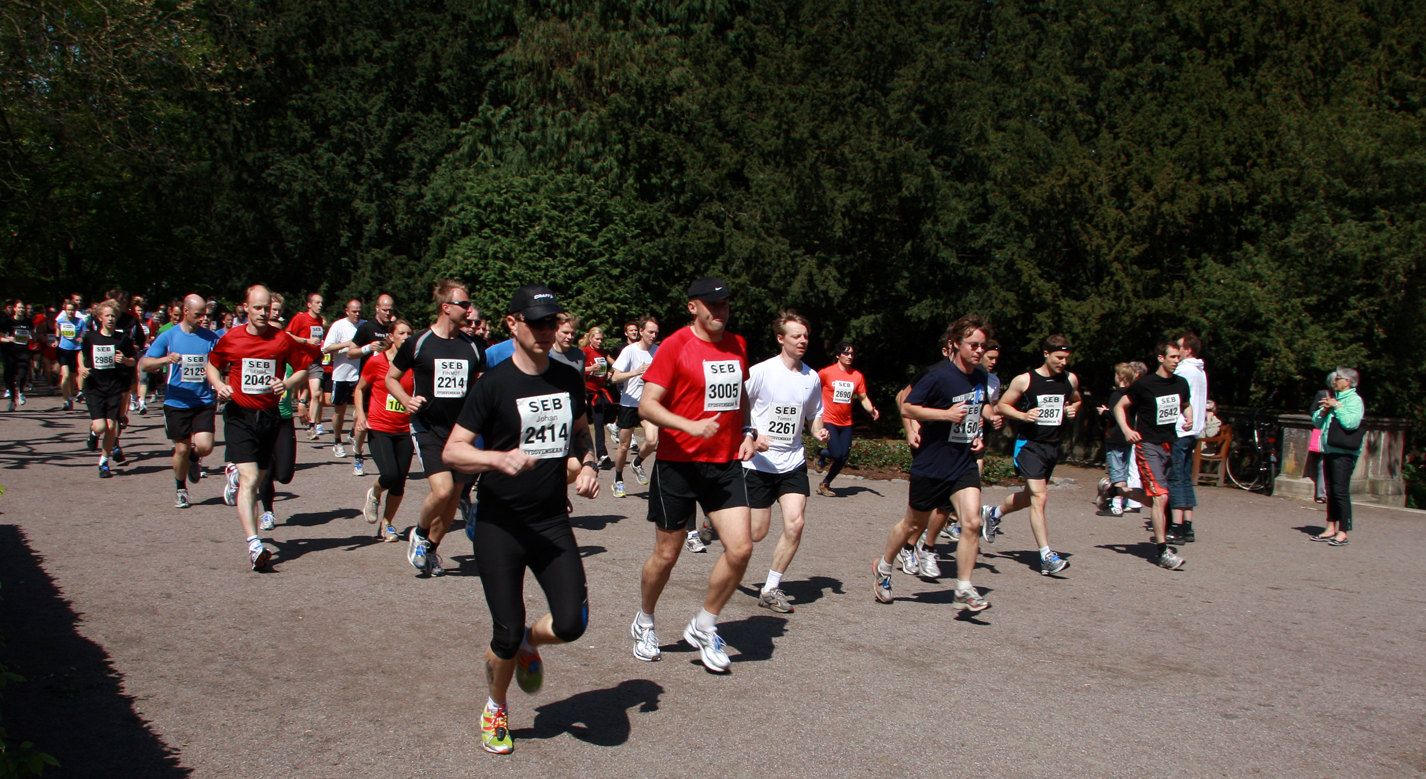 Lundaloppet city race in Lund, Sweden, 2009